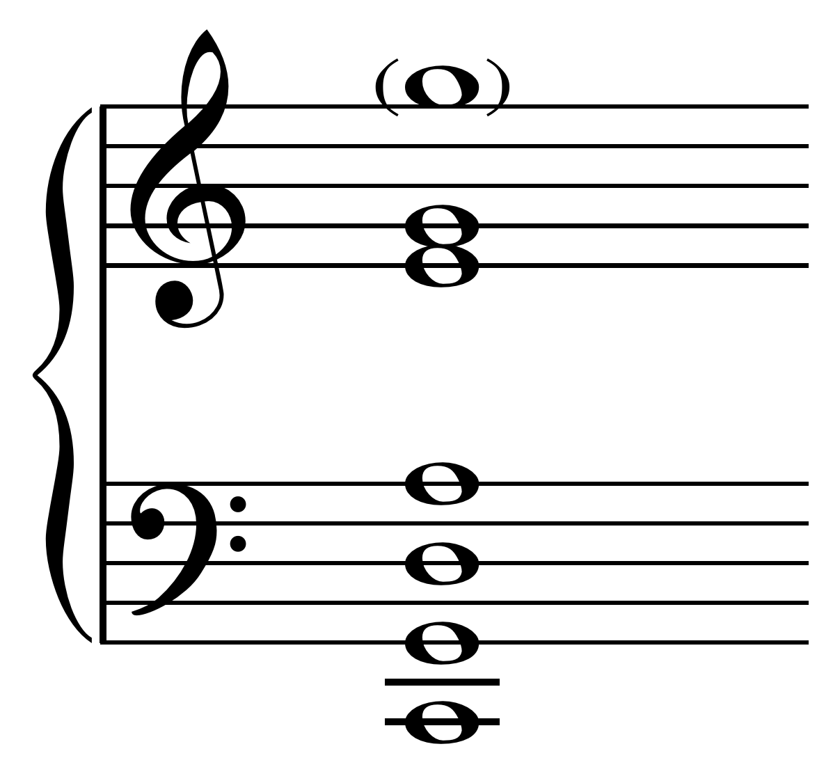 New Standard Tuning's range of playable notes.